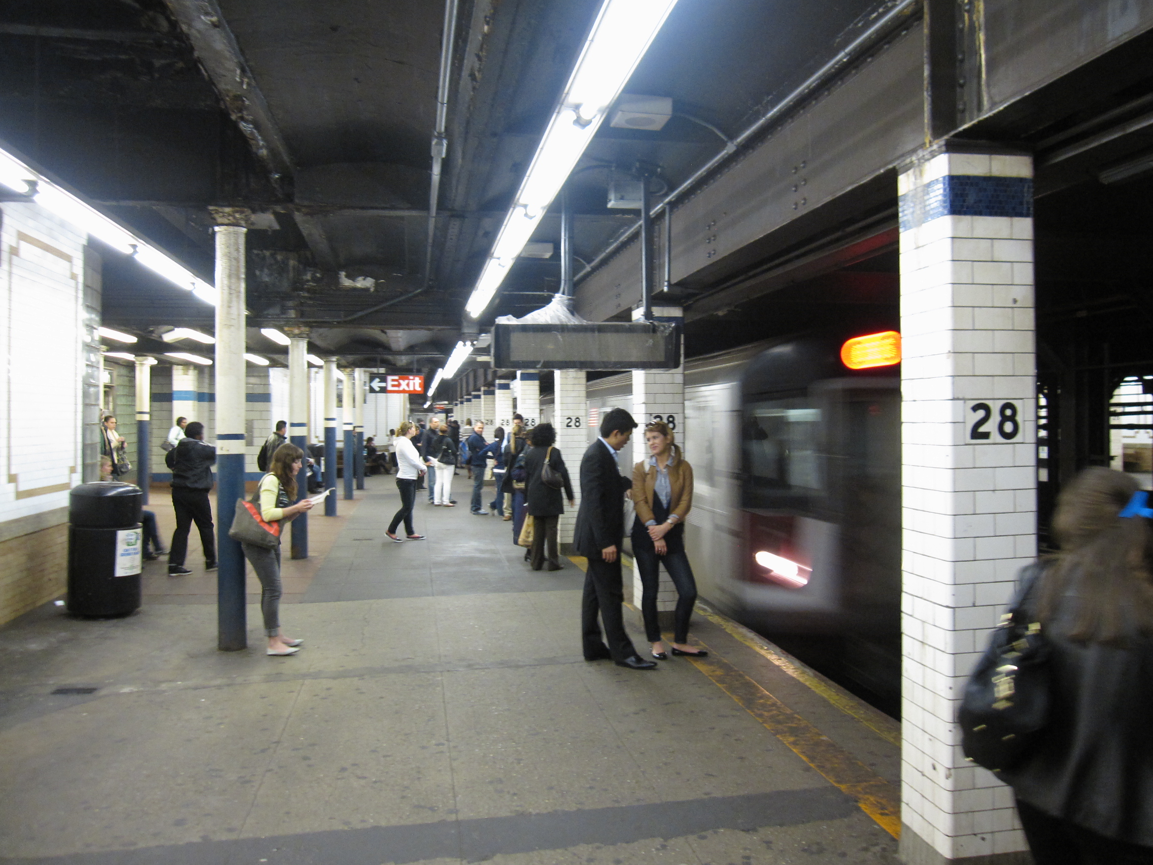 28th Street (IRT Lexington Avenue Line)